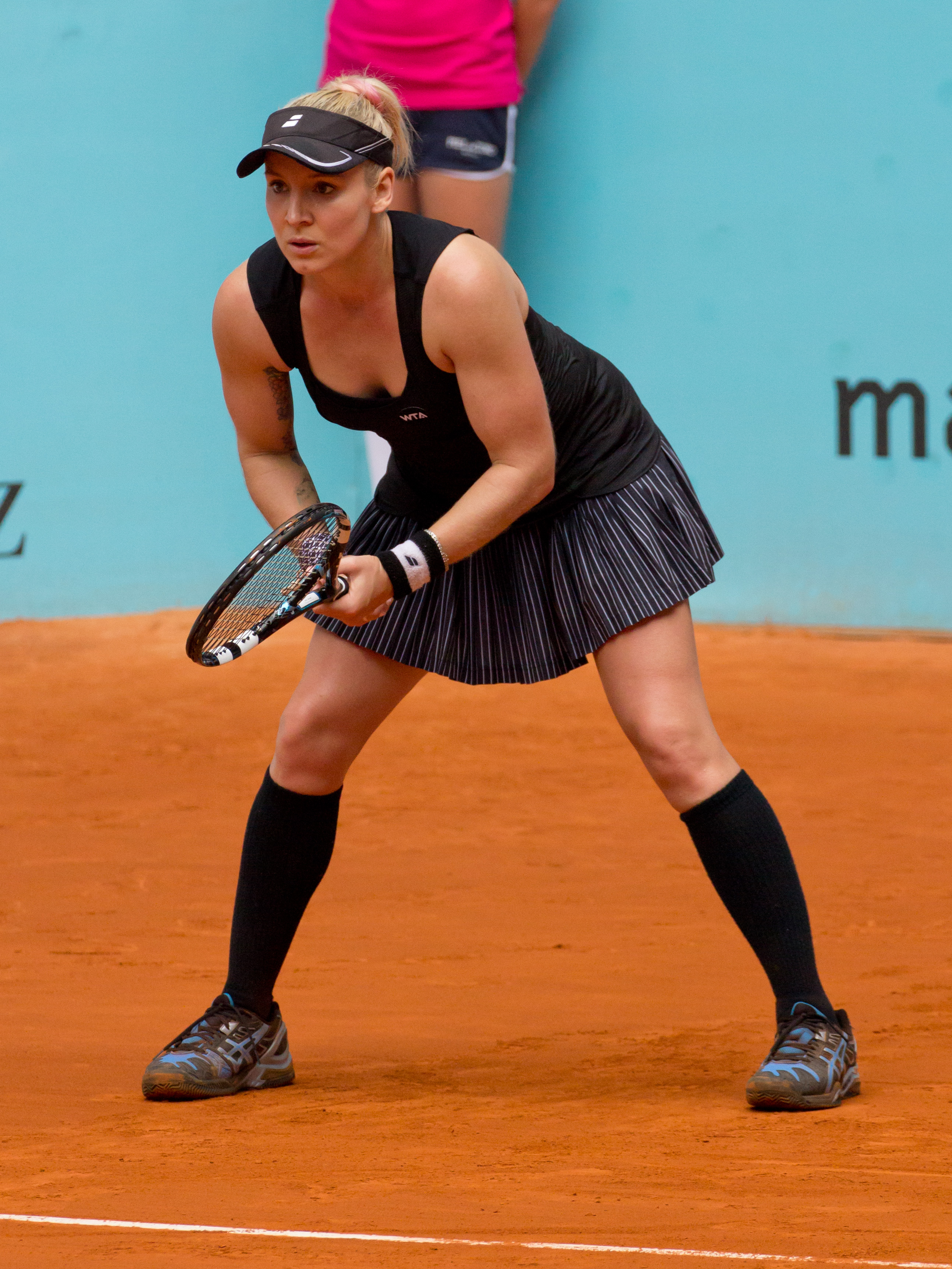 Bethanie Mattek-Sands at the Madrid Open 2015, Madrid, Spain.